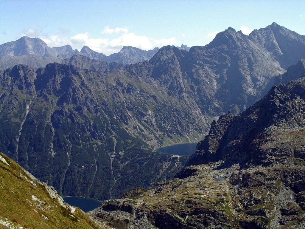 The photo presents Morskie Oko (on the left hand side) and Czarny Staw pod Rysami in the Tatra Mountains. Shot has been taken from Szpiglasowa Przełęcz.